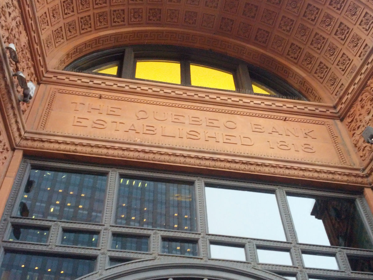 New York Life Insurance Building (also known as Quebec Bank Building) in Montreal. Note the reversed "Q" in "Québec".